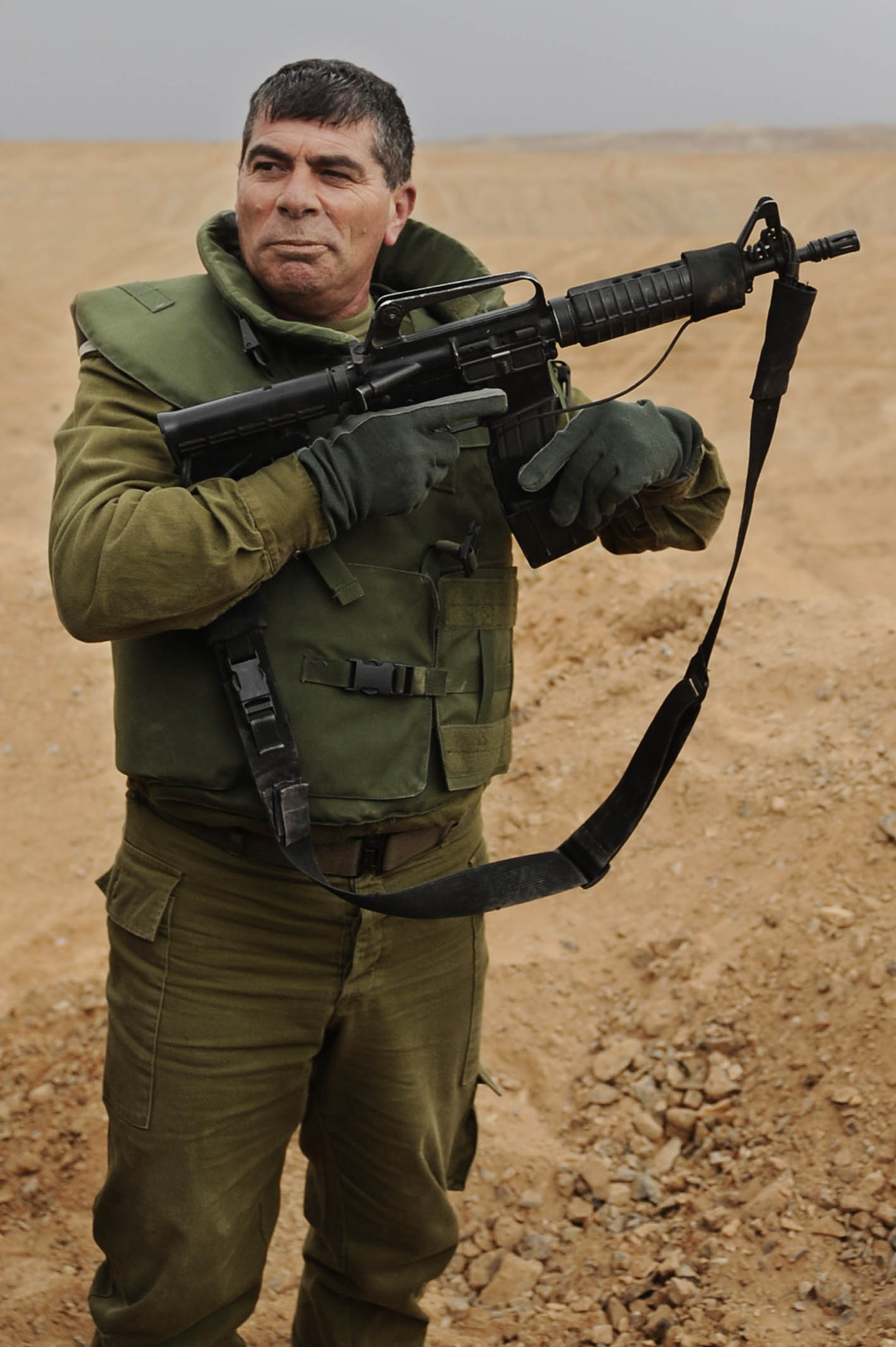 February 1, 2011. The Chief of the General Staff, Lt. Gen. Gabi Ashkenazi, visits the Ground Forces for the last time as the IDF Chief of Staff. הרמטכ"ל, רב-אלוף גבי אשכנזי ערך אתמול (ג') ביקור פרידה מזרוע היבשה.